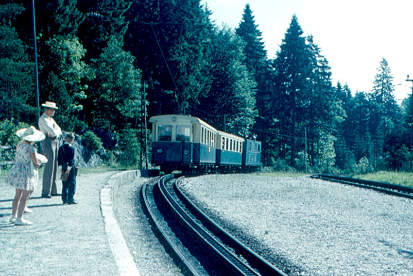 Zugspitzbahn at the Eibsee station near the base of the Zugspitze. The train from Garmisch-Partenkirchen is arriving, and will go to the top.